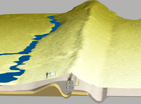 Visualisation of the Danevirke Fieldstonewall